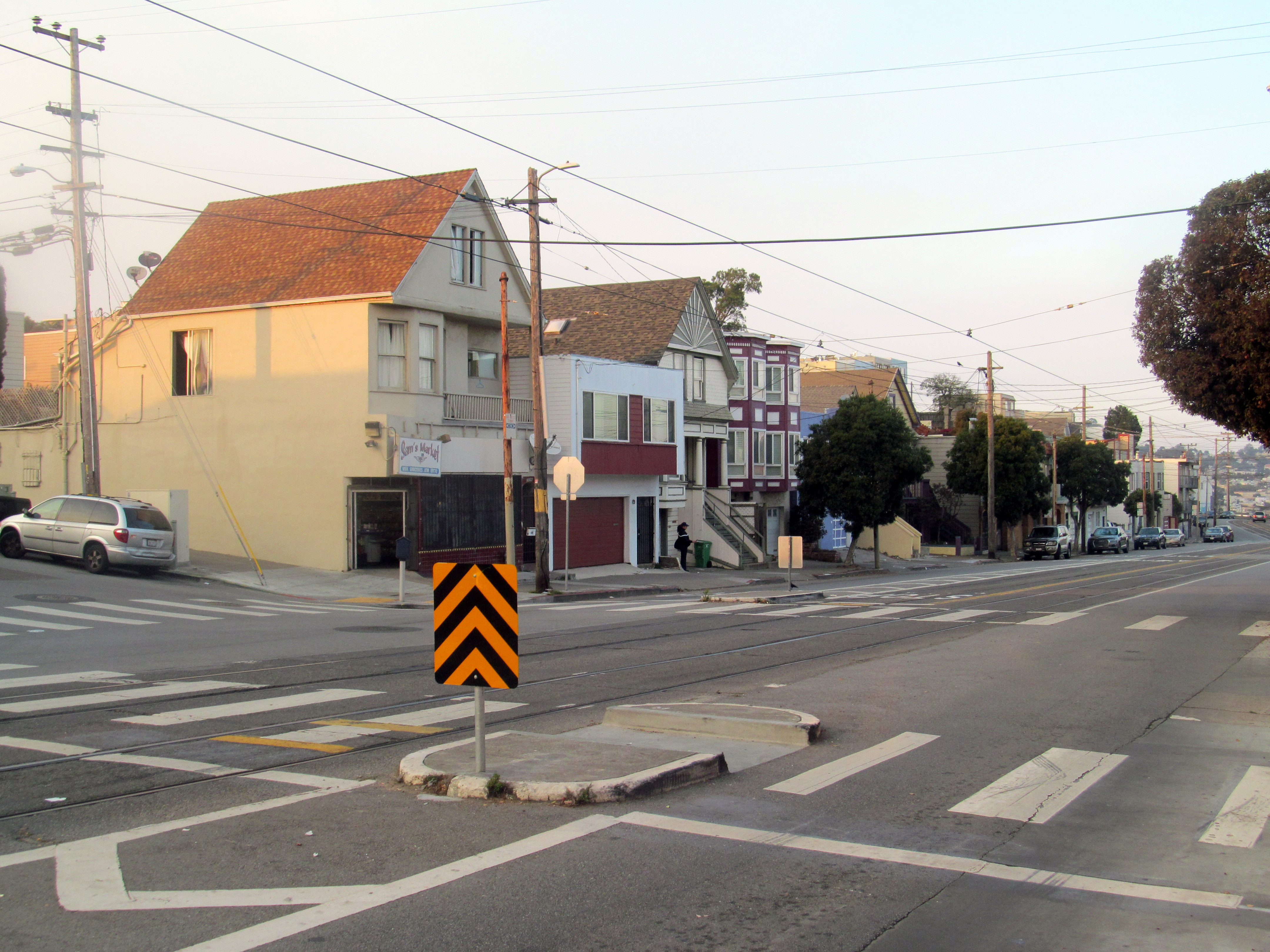 San Jose and Lakeview in October 2017